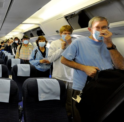 Flight UA847 (IAD-EZE) Argentine Government and his 10-minute prior landing marks :-(